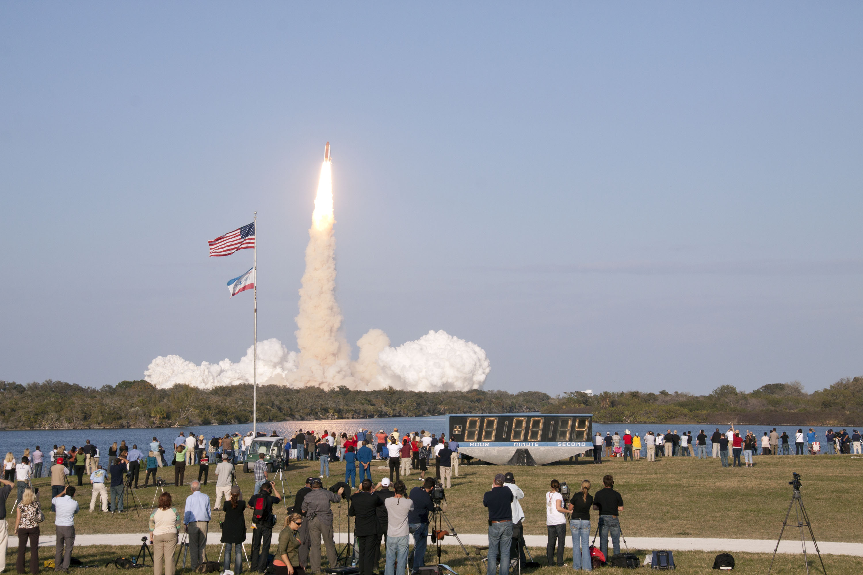 CAPE CANAVERAL, Fla. - Space shuttle Discovery's liftoff from Launch Pad 39A at NASA's Kennedy Space Center in Florida on a picturesque, warm, late February afternoon is witnessed by news media representatives near the countdown clock at the Press Site. Launch of the STS-133 mission was at 4:53 p.m. EST on Feb. 24. Discovery and its six-member crew are on a mission to deliver the Permanent Multipurpose Module, packed with supplies and critical spare parts, as well as Robonaut 2, the dexterous humanoid astronaut helper, to the International Space Station. Discovery is making its 39th mission and is scheduled to be retired following STS-133. This is the 133rd Space Shuttle Program mission and the 35th shuttle voyage to the space station. For more information on the STS-133 mission, visit